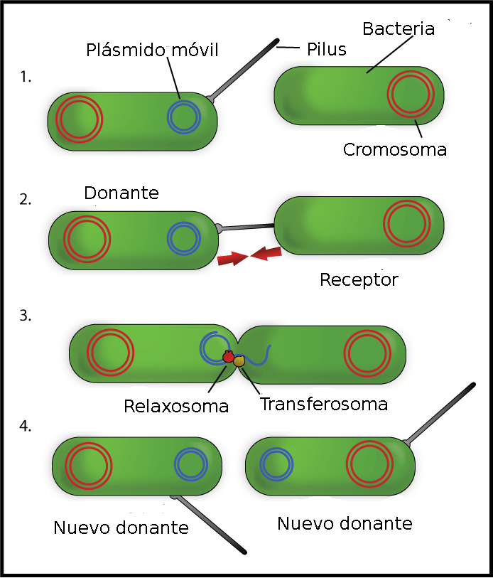 Overview of bacterial conjugation in 4 steps